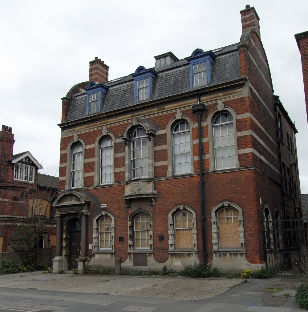 Derelict Education Department Offices, Grimsby